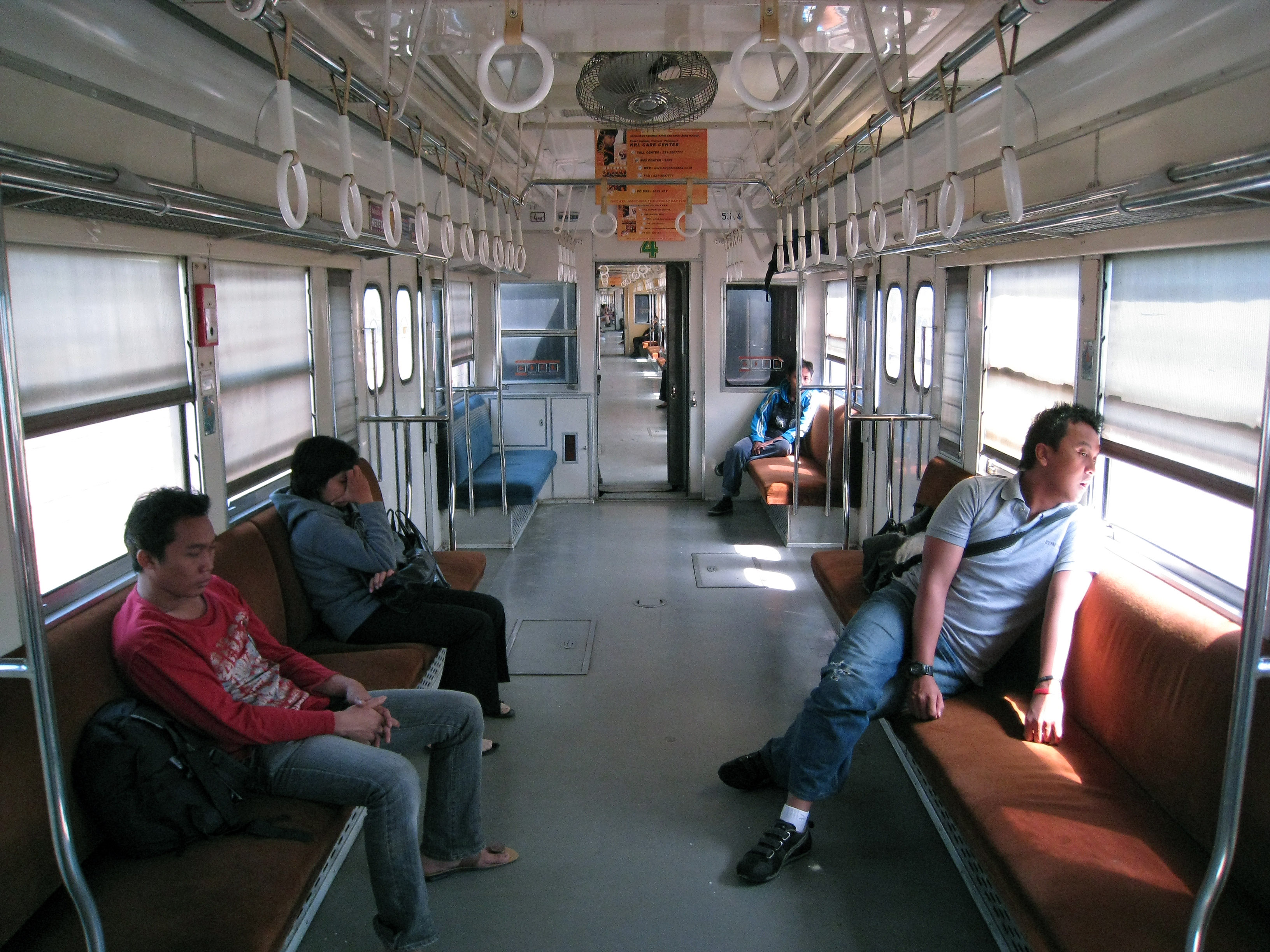 The interior of Kereta Commuter Indonesia train, connecting Jakarta with Bogor, West Java, Indonesia.